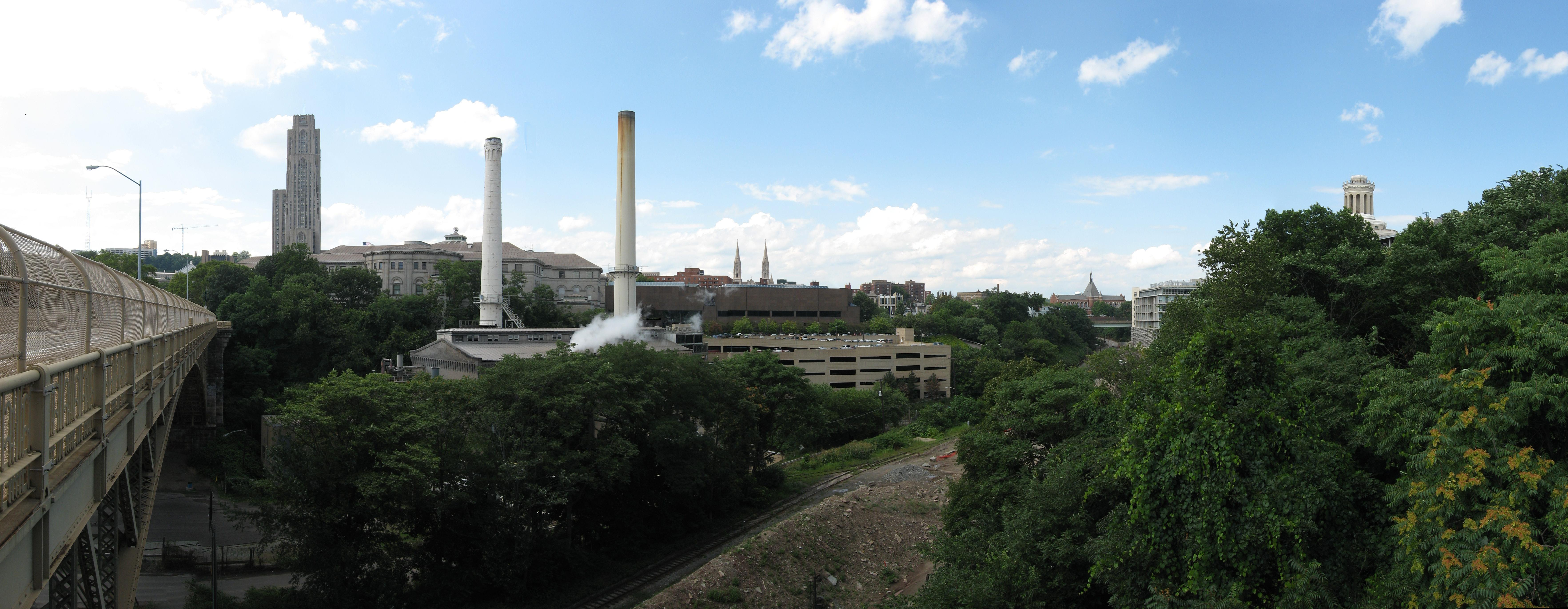 A panorama over Junction Hollow, showing (from R-L), Panther Hollow Bridge, Cathedral of Learning, the Carnegie Library, Bellefield Boiler Plant, Carnegie Museum of Art, Central Catholic High School, and Hamerschlag Hall (CMU) This image was created with Hugin.